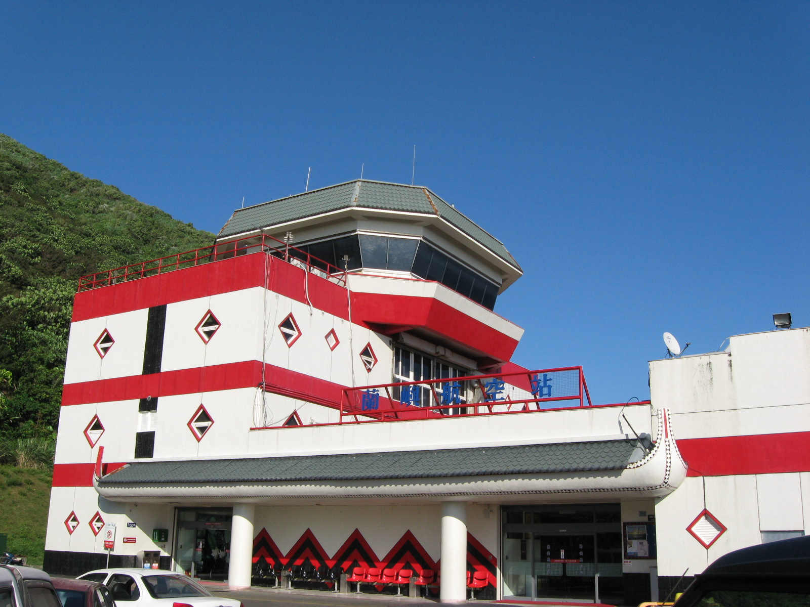 Oblique view of the front of the Lanyu Airport's main building.